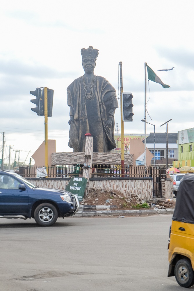 Oba Agege statute